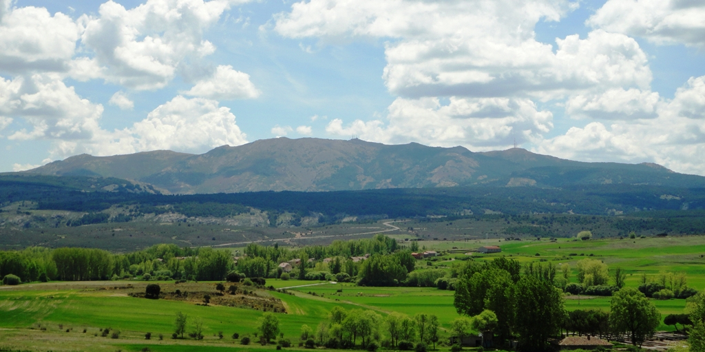 North face of Alto Rey in Guadalajara (Spain). In the foreground, the town of Albendiego.